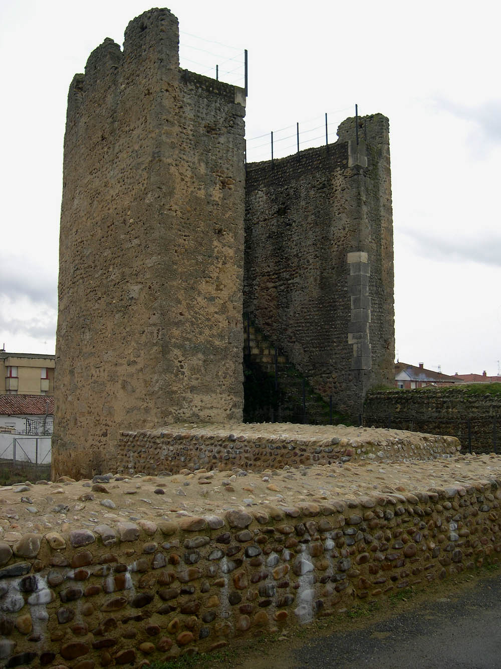 Mansilla de las Mulas. Tower of de medieval walls. (León). Spain